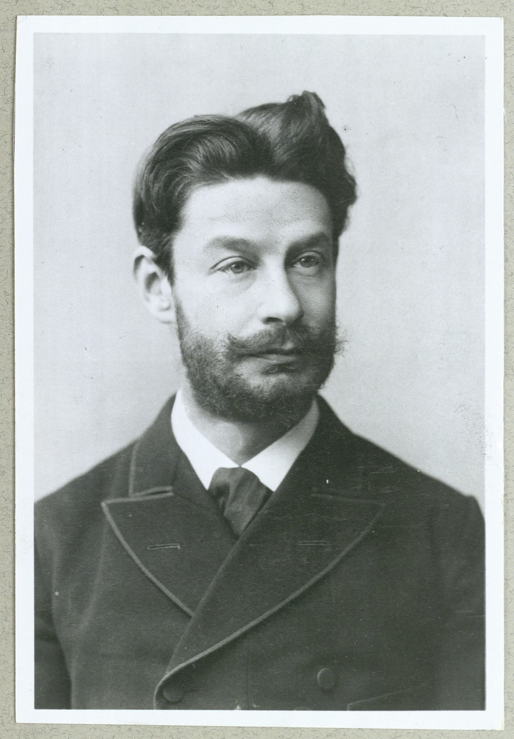 The Danish literary critic Georg Brandes, photographed in Kristiania (Oslo), Norway. From "Portrætbasen", Det kongelige Bibliothek [1]